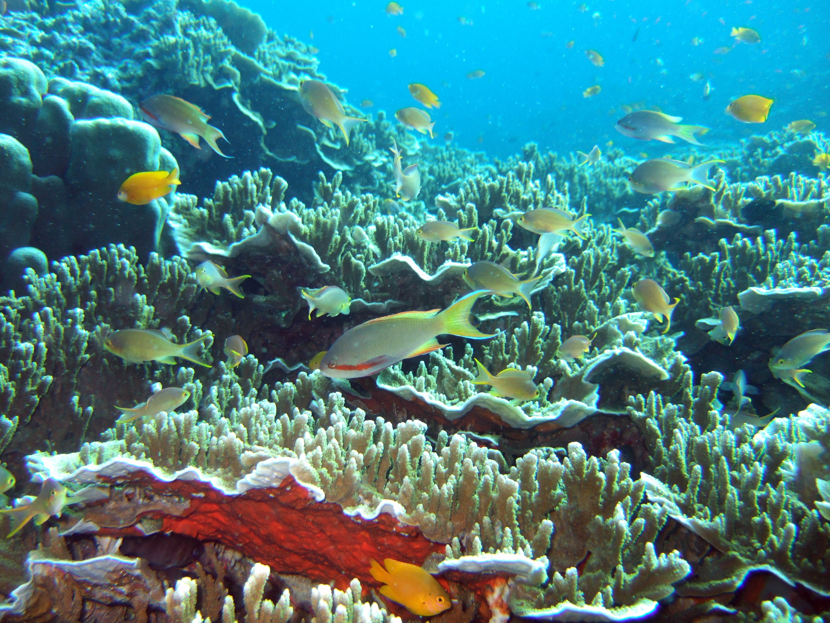 Underwater at Moalboal, Cebu, Philippines